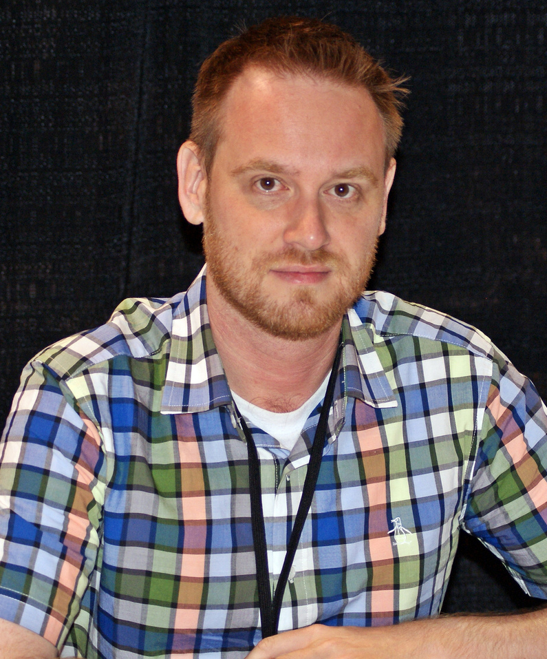 Cameron Stewart attending the Calgary Comic & Entertainment Expo in BMO Centre, Calgary, Alberta, Canada.